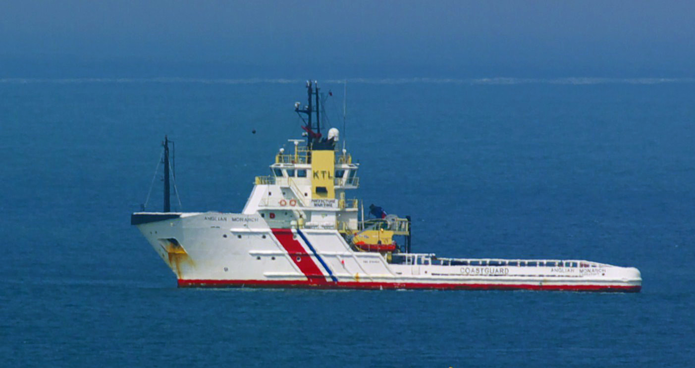 Version cropped to zoom in on the ship and better fit into article infobox.